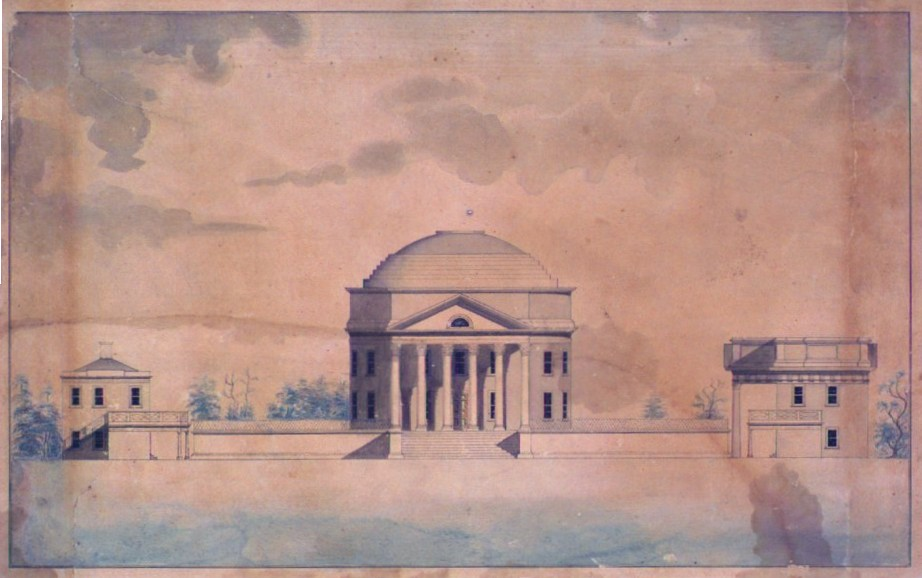 University of Virginia: Rotunda and two Pavillons description at source: Description: View from the South probably for Mrs. Cocke Date: February 1823 Medium: Ink with tinted washes Support: Paper CW Dimensions: 17-1/2 x 11 in. Condition: Laminated and backed with linen. Significant tear damage and repair; also staining. Author: Neilson Owner: ViU Classification: N-354 Publication History